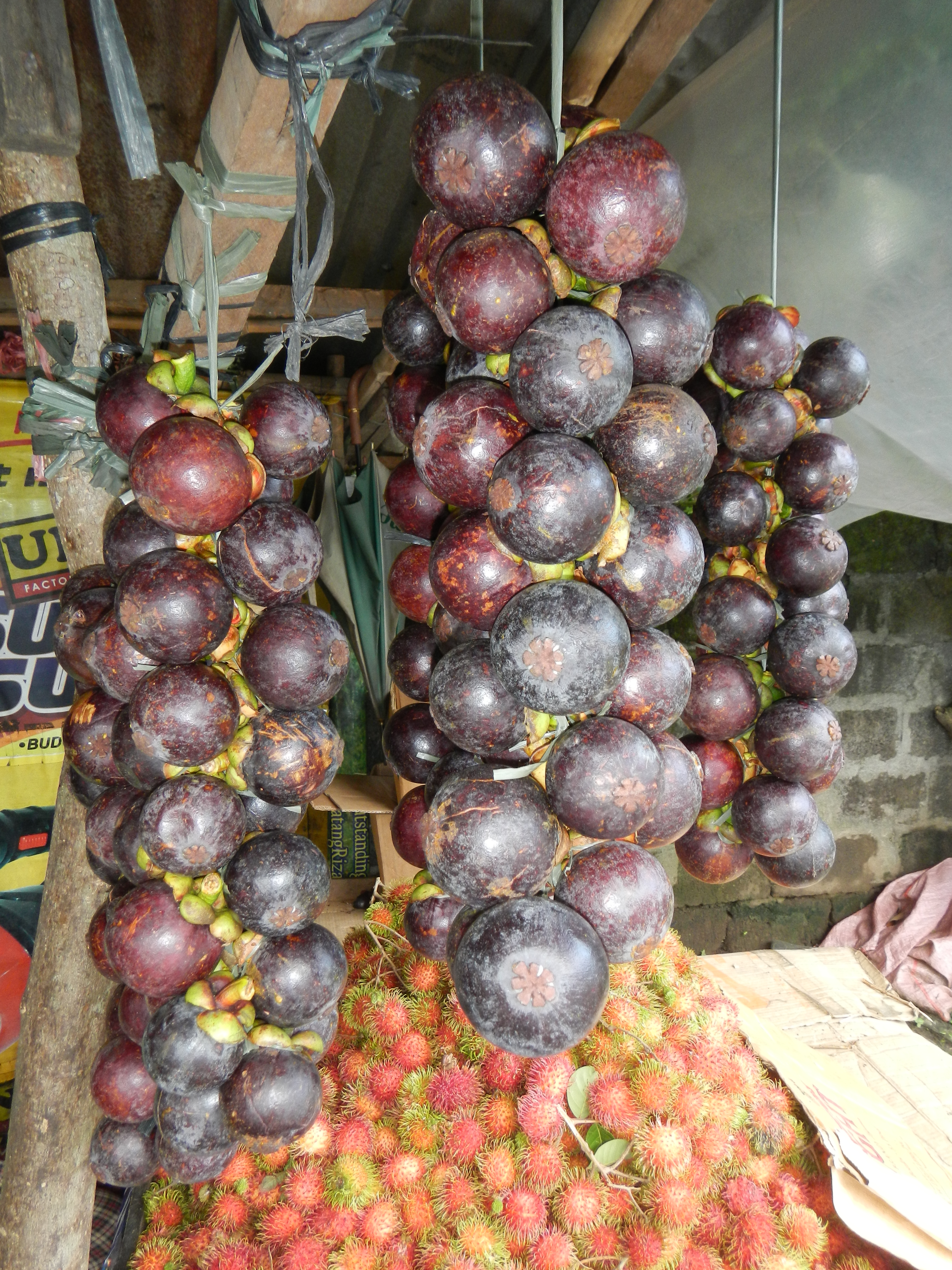 Mangosteen at the Welcome District Highway Boundary - Highway Boundary MSR Tiaong Section Km 091 + 476 - Km 102 + 462 & Km 69 + 380 - Km 91 + 443 - City of San Pablo, Laguna [1] & Tiaong, Quezon [2]